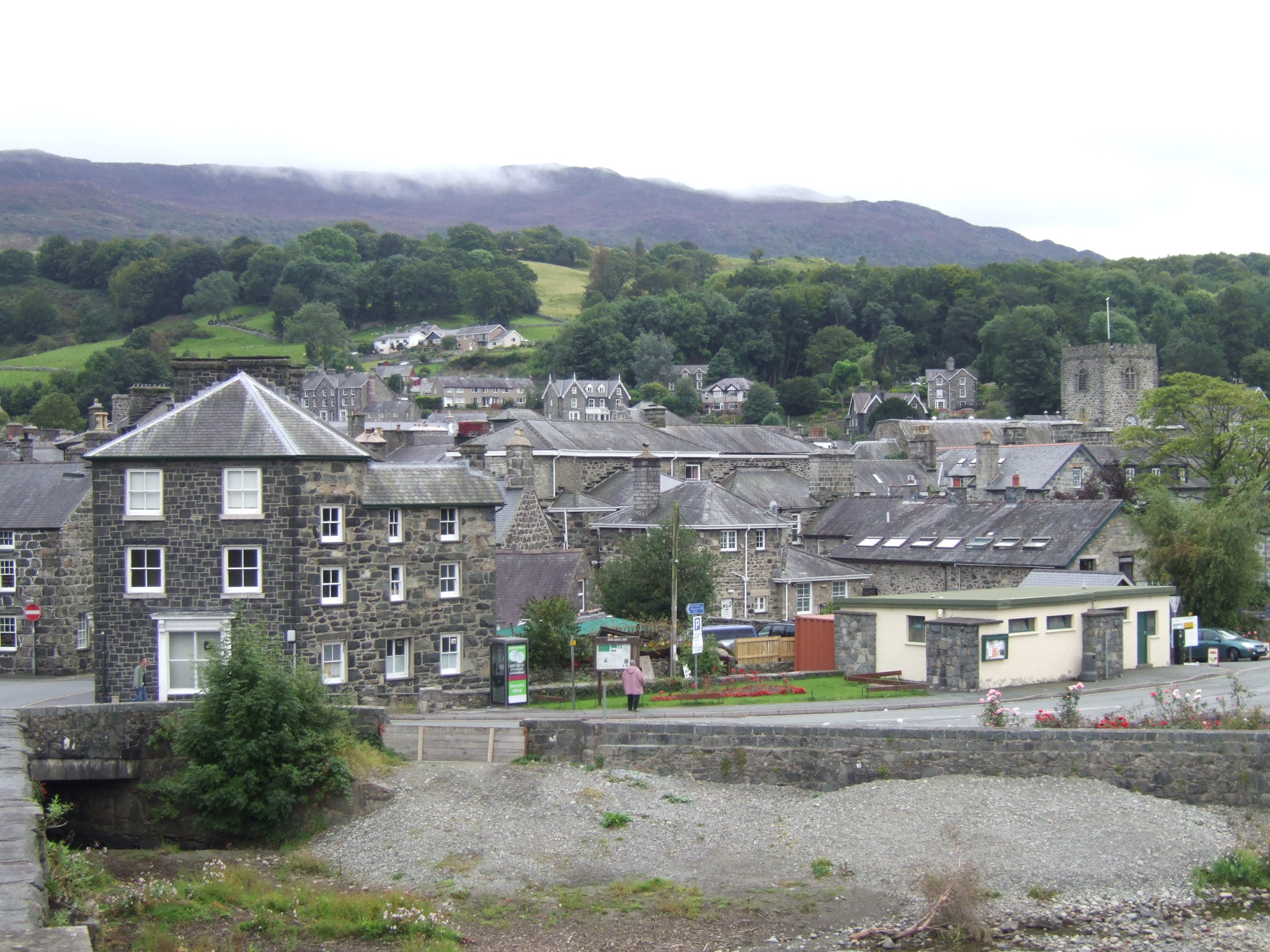 A shot of Dolgellau from a bridge over a nearby road and the river Mawddach. To the right the image, St. Marys church is visible.